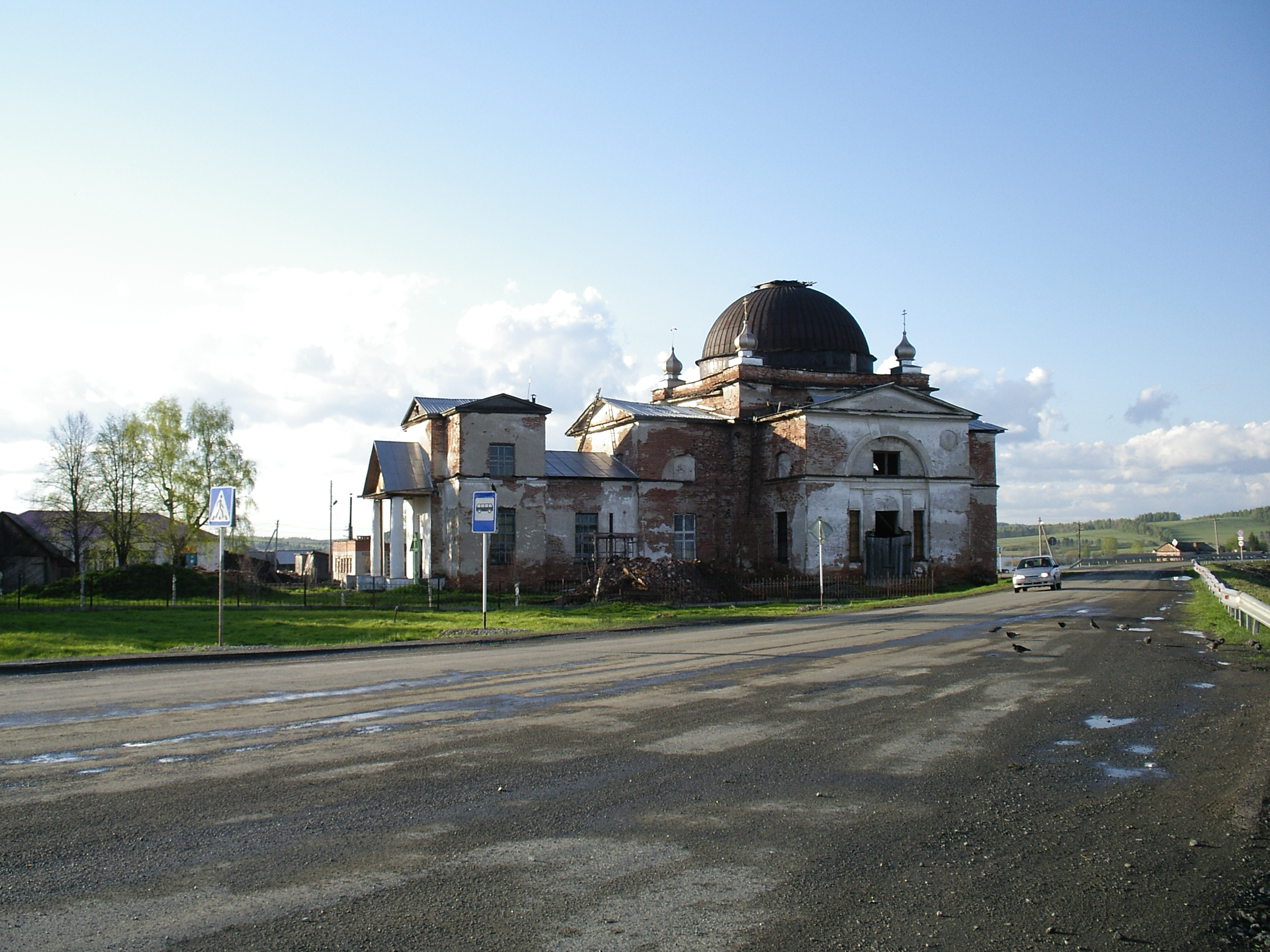 Church of the Presentation of Jesus at the Temple, Sylva, Sverdlovsk Oblast